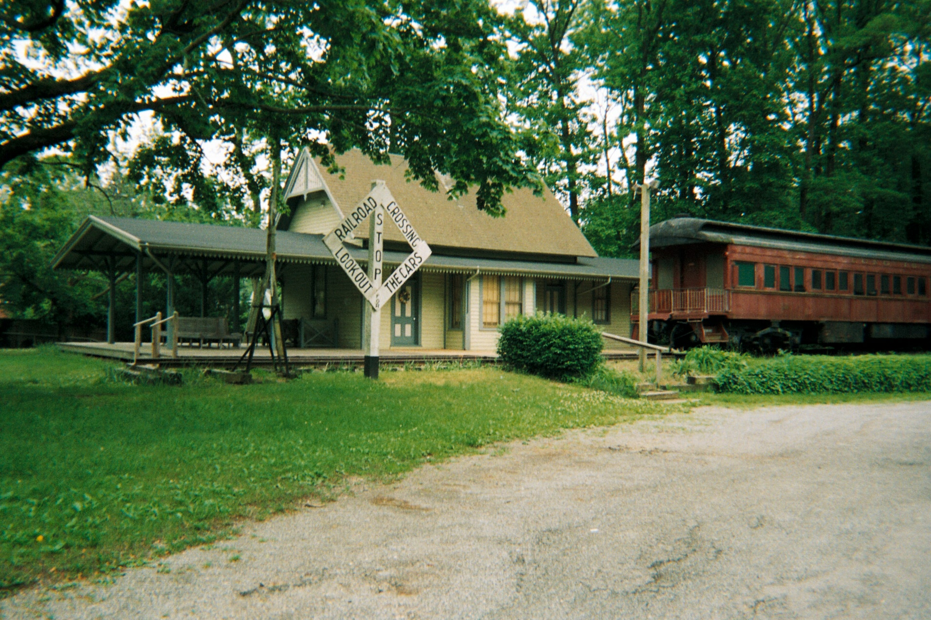 The former Wantagh (LIRR station), parlor car, and post office(not shown) within the historic Wantagh Railroad Complex, which was moved from its previous location when the Babylon Branch was elevated during the mid-20th Century. The site is currently on the National Register of Historic Places.